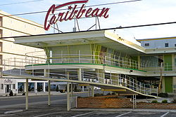 The Caribbean Motel, a historic motel located in Wildwood Crest, New Jersey.